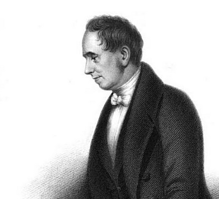 William Yates (15 November 1792 - June 1845) was an English Baptist missionary and orientalist. He created a bible translation into Bengali